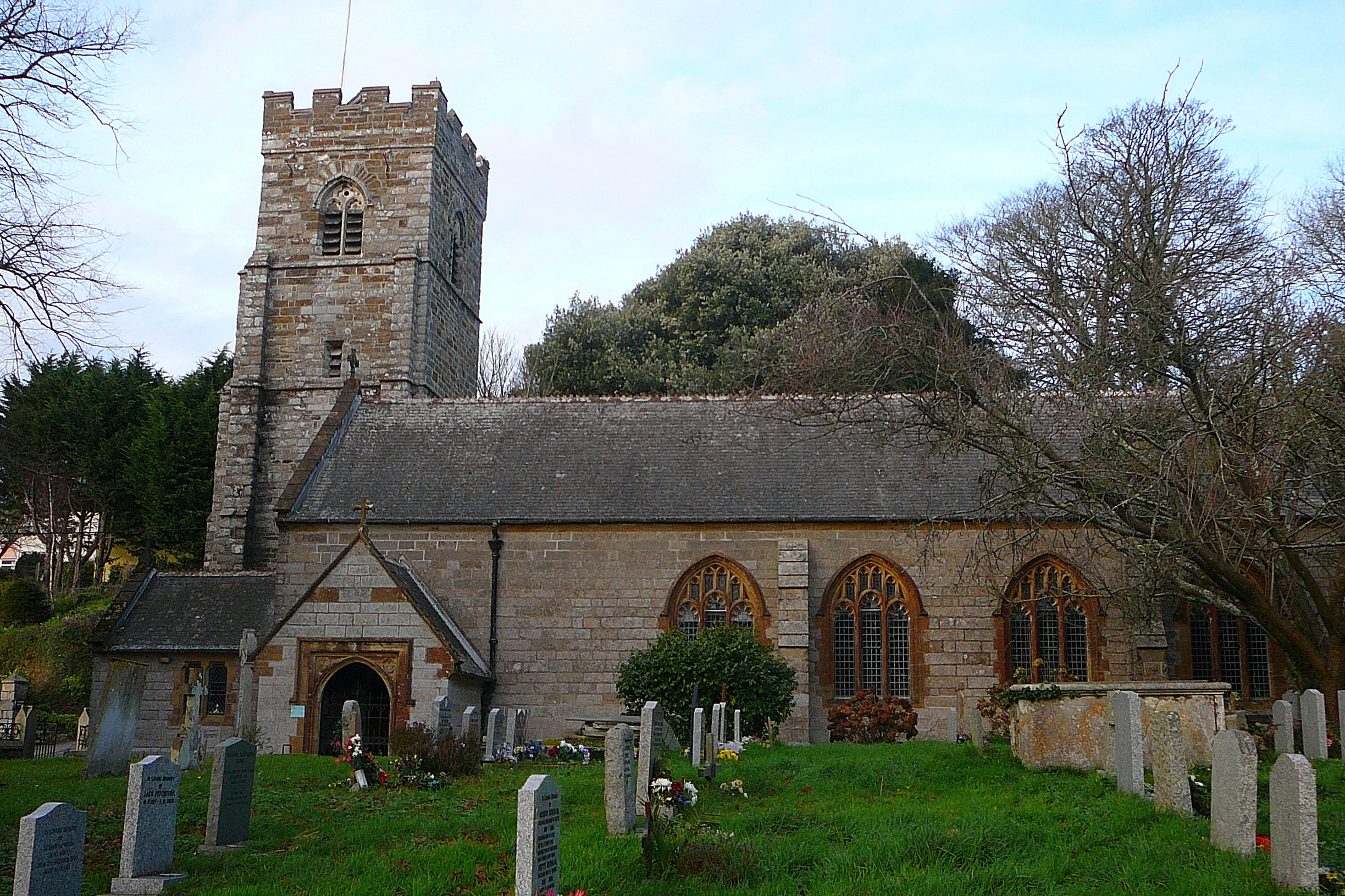 Still New Year's Day 2008